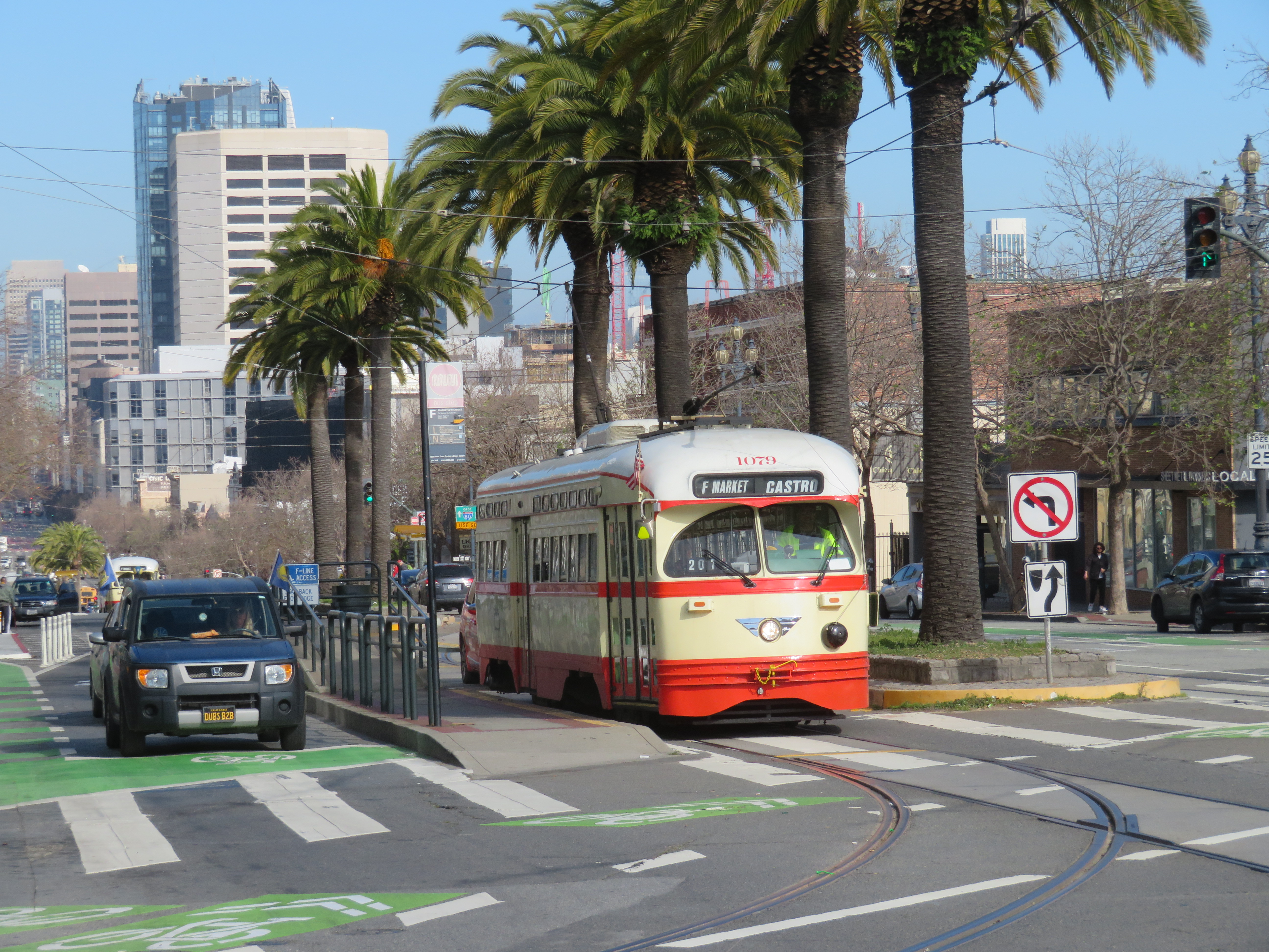 Muni #1079 outbound at Market and Buchanan station in January 2019